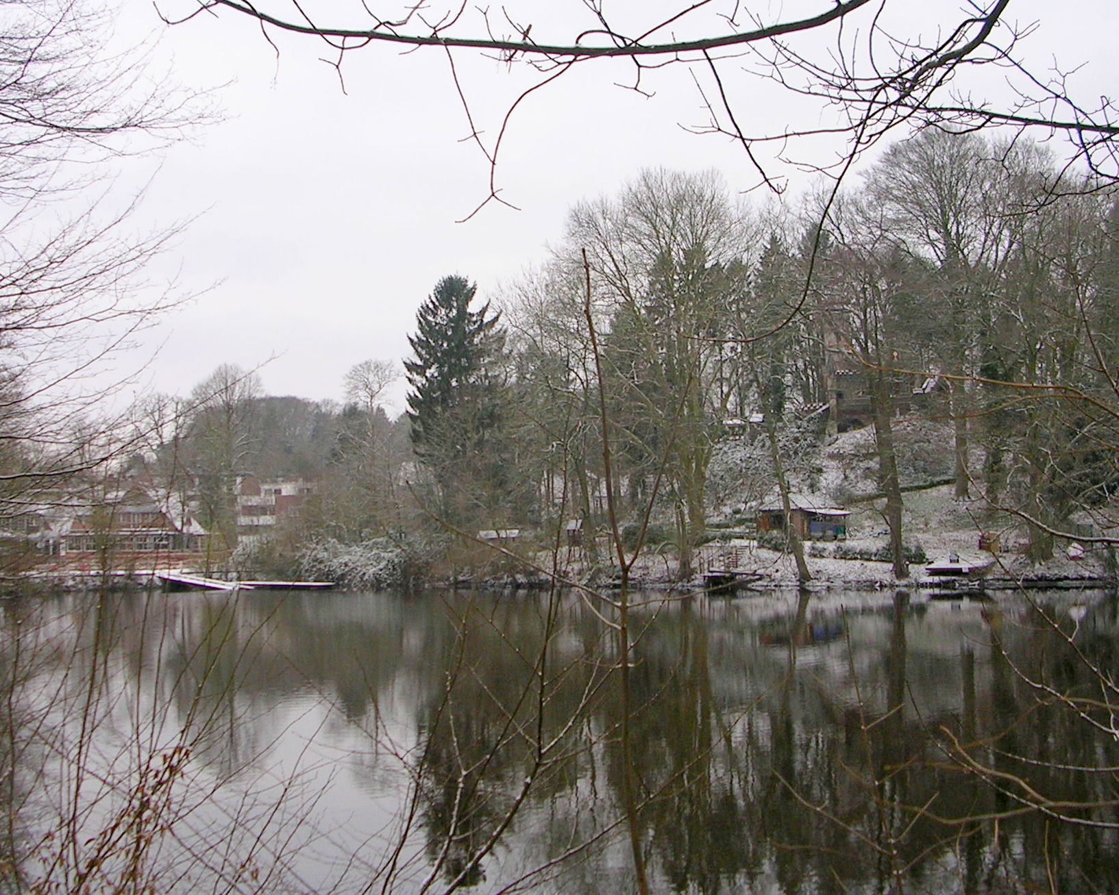 Miniature (scale 1:4) of Castle Ruin „Henneberg“ (aristocratic family seat originally situated near Meiningen/Thuringia) built as a kind of summer house in 1887 for landowner Albert Henneberg on his property above Alster lake near Poppenbüttel locks. View from Alster path, lefthand former lockmaster's house (cultural monument No. 1063)